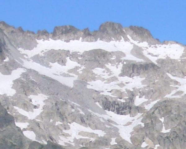 Besiberri Sud (East face), la Vall de Boí, Alta Ribagorça, Catalonia